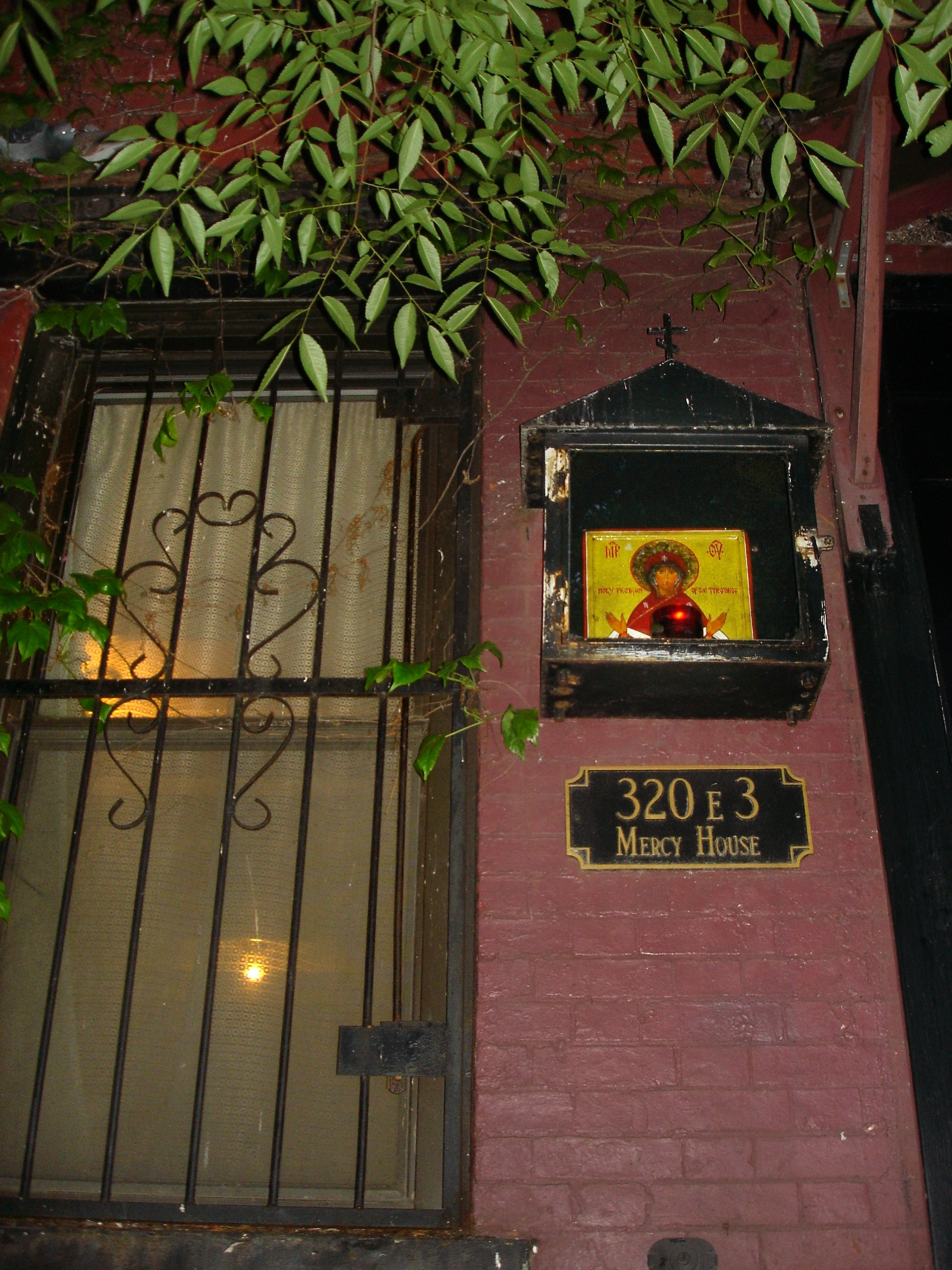 Mercy House (Manhattan, NY). Saint Mary of Egypt Monastery.